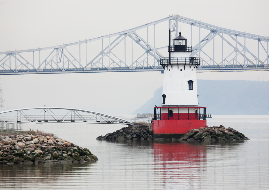 The Tarrytown Light; uploaded to Flickr on April 10, 2011.